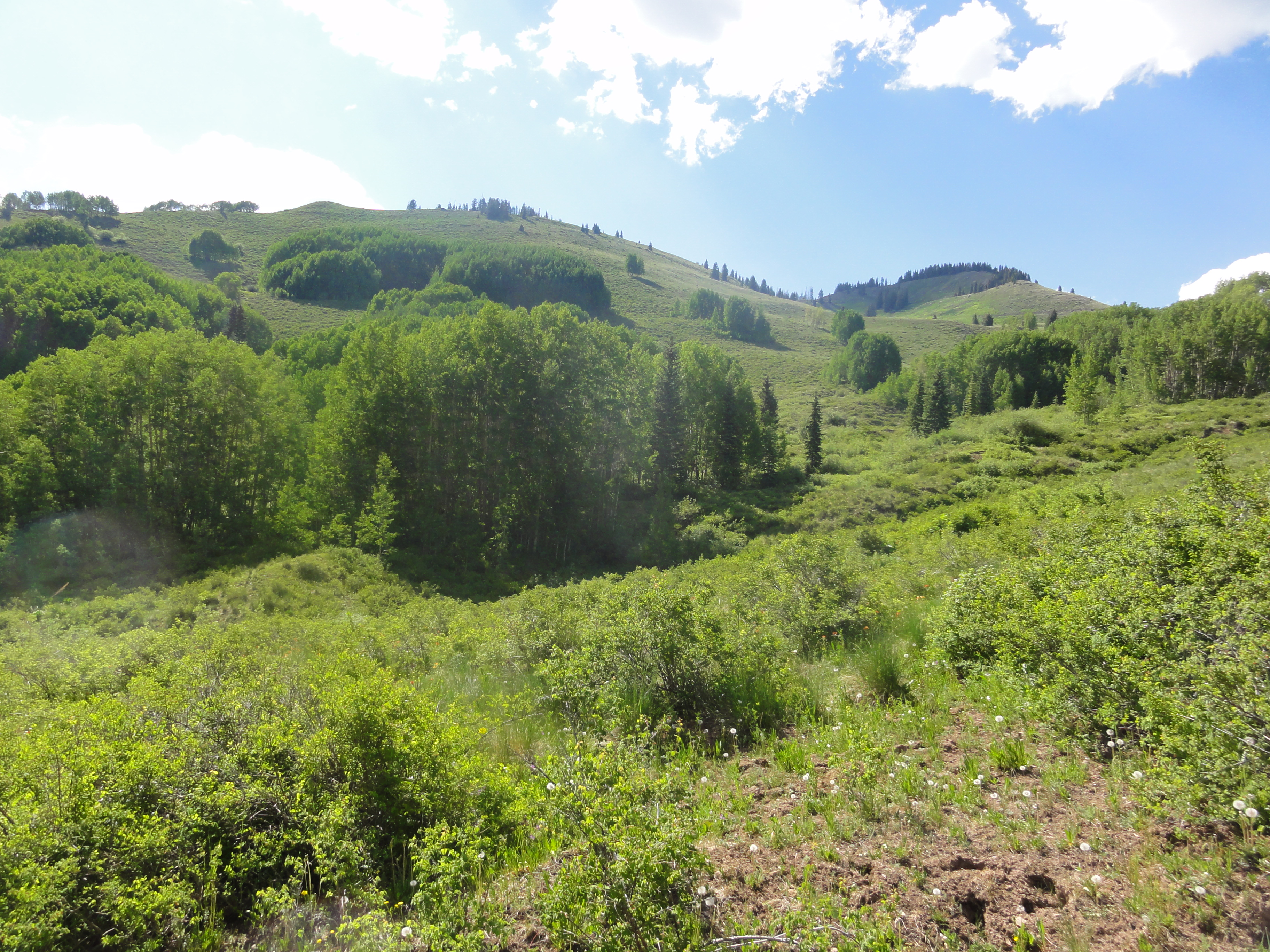 Grassy hills in the Weminuche Wilderness, Colorado.